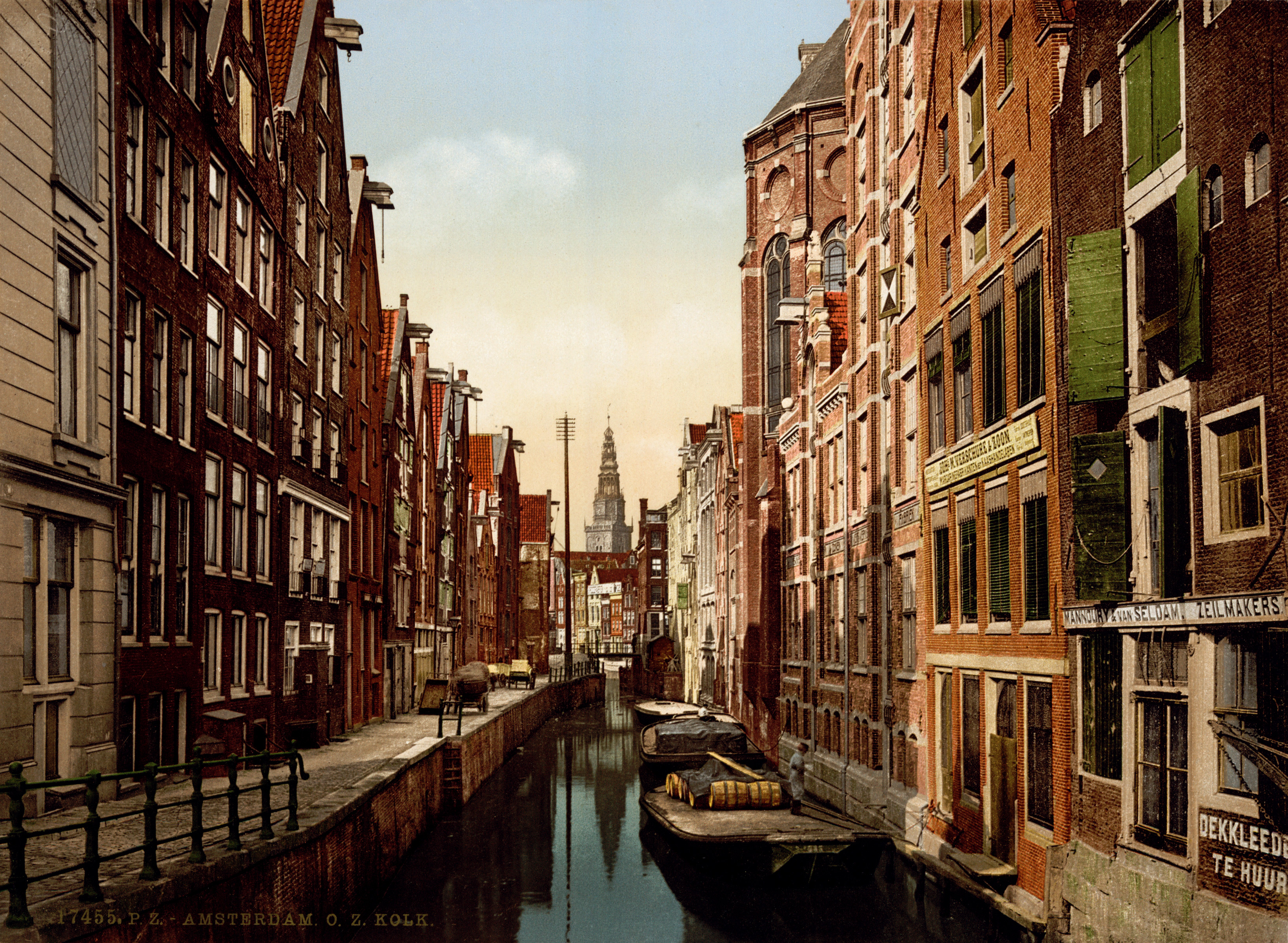 17455 P.Z. Amsterdam, O.Z. Kolk. Photochrom print by Photoglob Zürich, between 1890 and 1905. From the Photochrom Prints Collection at the Library of Congress More photochroms from the Netherlands | More photochrom prints [PD] This picture is in the public domain